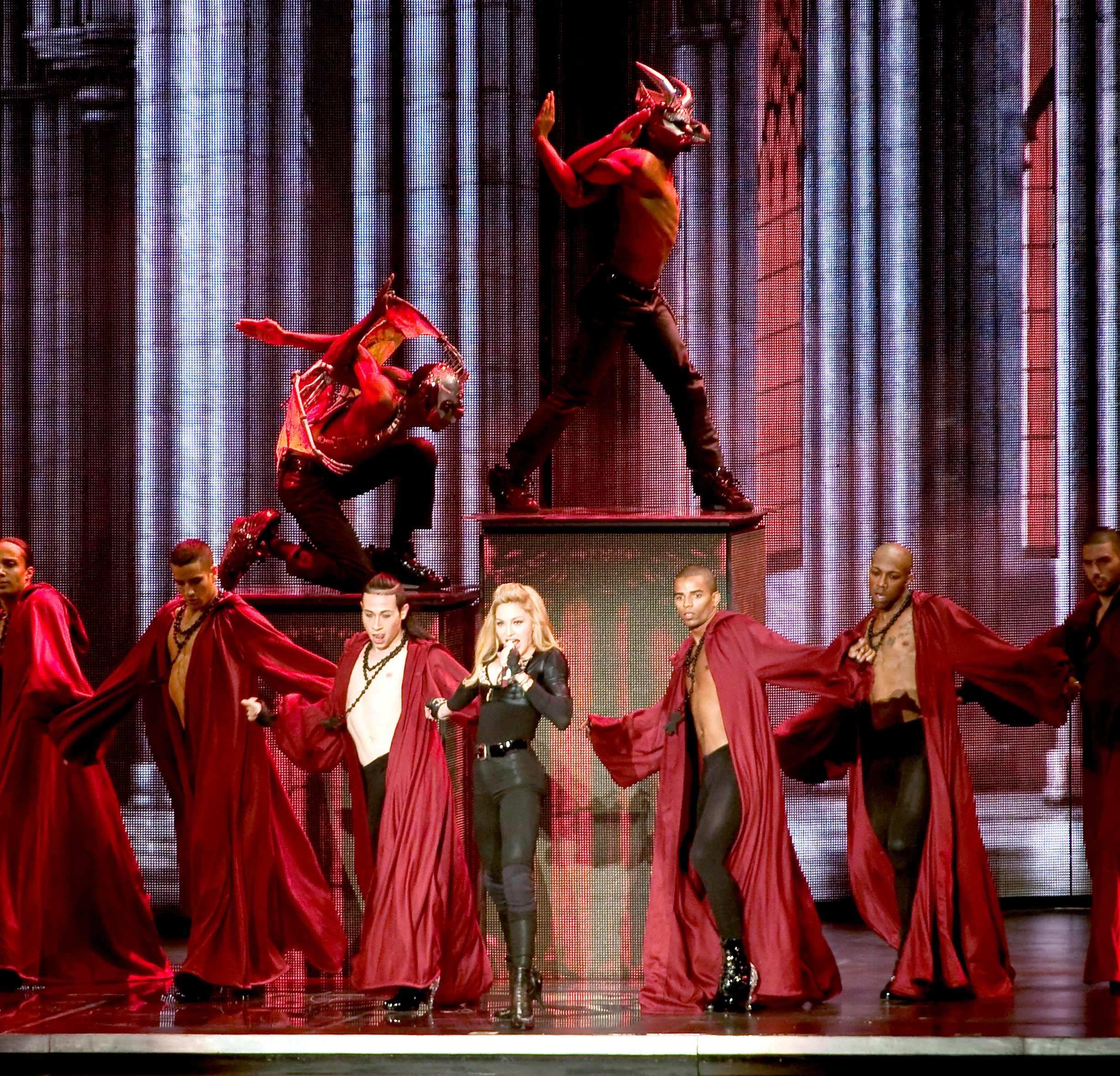 Girl Gone Wild showing the whole setting